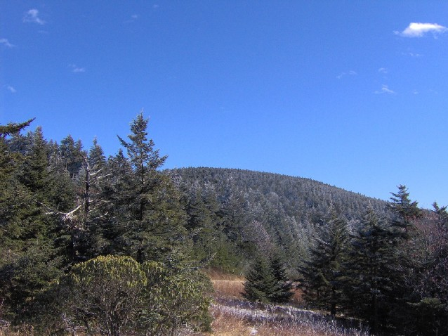 Roan High Knob, looking east from Tollhouse Gap (between High Knob and High Bluff). The elevation at the gap is roughly 6,000 feet/1829 meters.